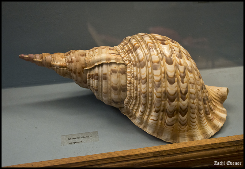 Charonia tritonis חצוצרה ים-סופית Vienna Natural History Museum, Austria, 2014 Wien Naturhistorisches Museum, Osterreich, 2014 המוזיאון להיסטוריה של הטבע, וינה, אוסטריה, 2014 This image was created by Zachi Evenor צחי אבנור and is released under Creative Commons CC-BY license. When using this image credit it to Zachi Evenor (in Hebrew for use in Israel: צחי אבנור). Please avoid using these images in an abusive or offensive manner. Please link to the original image on Wikimedia Commons or Flickr if possible. For more free to use images visit Category:Photographs by Zachi Evenor. For non-free images visit Flickr: . Enjoy this image :)